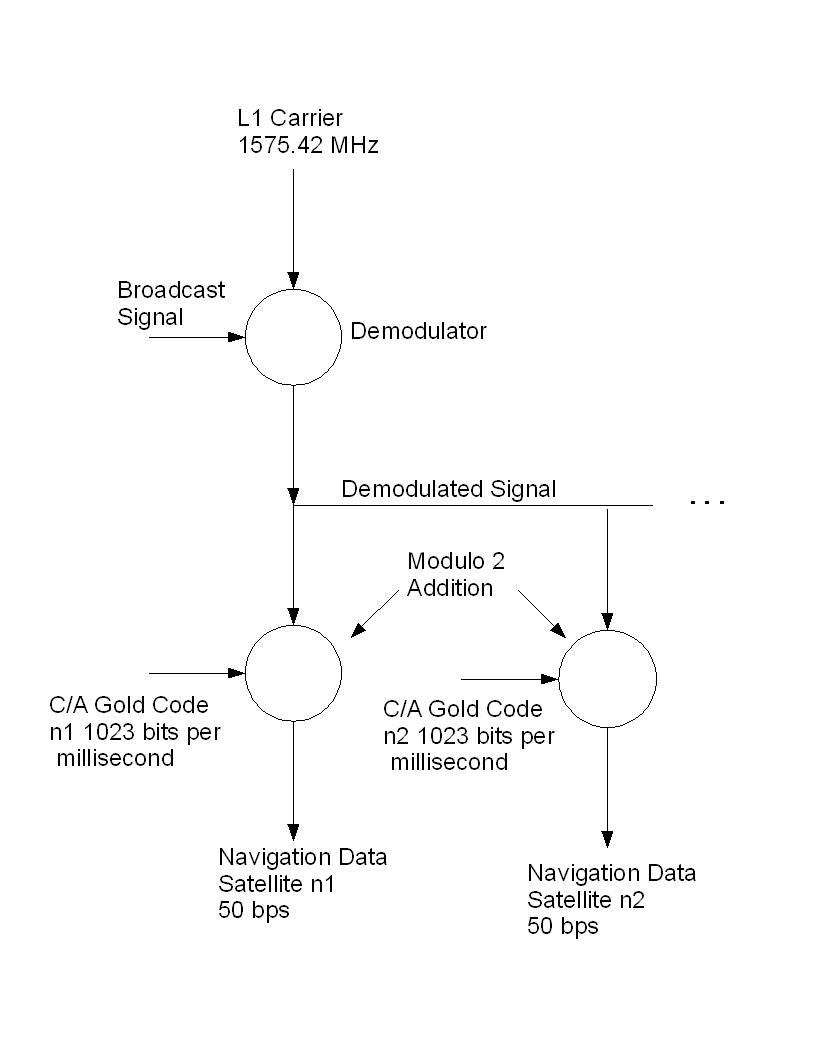 Diagram depicting demodulation and decoding of signals broadcast by GPS satellites